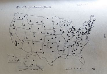 Map of suggested AHECs 1970, Carnegie Commission, printed in House Appropriations Report, 19788